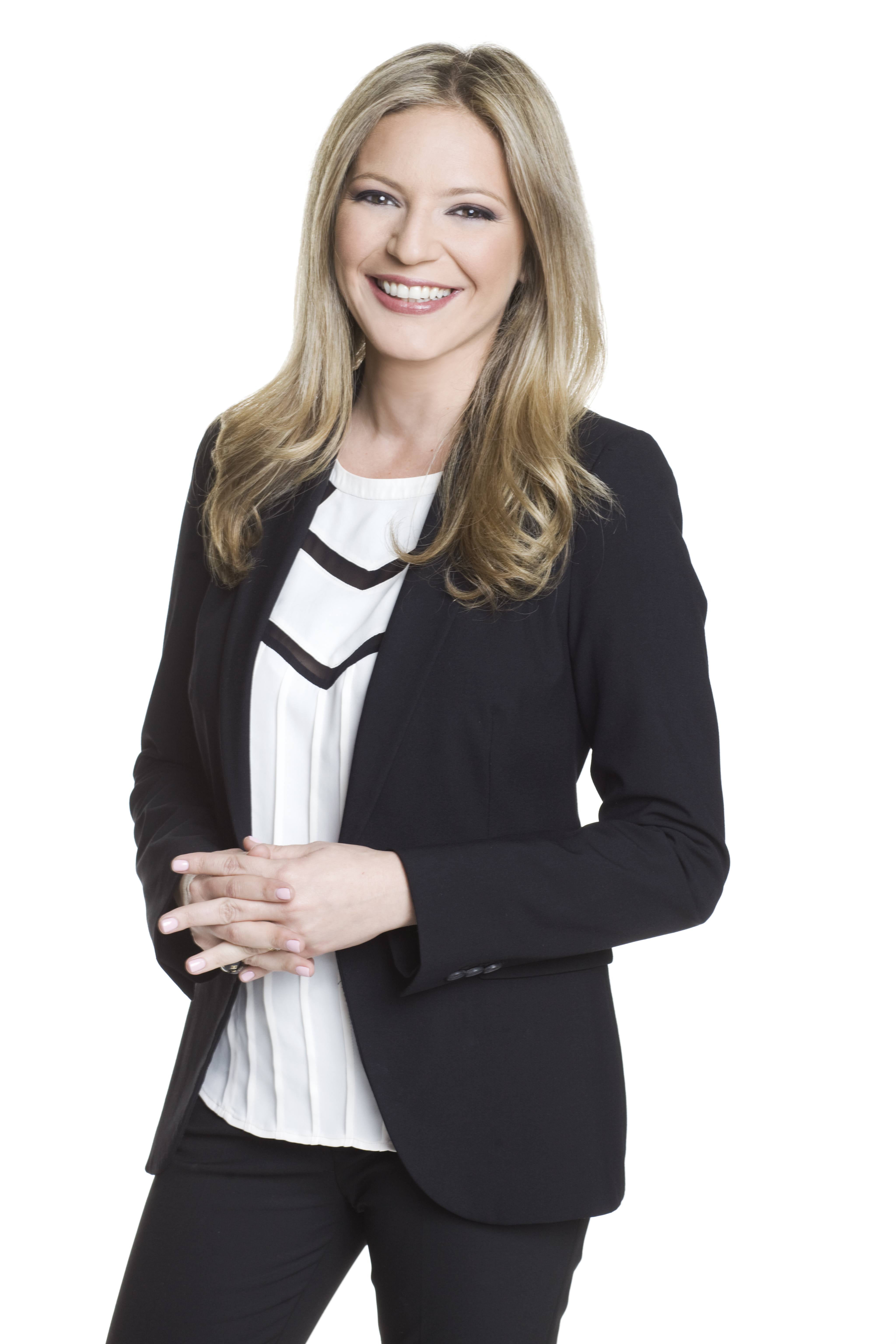 Channel 10 News (Israel) Journalist